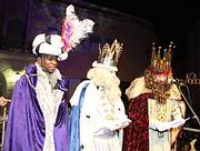 Reyes Magos